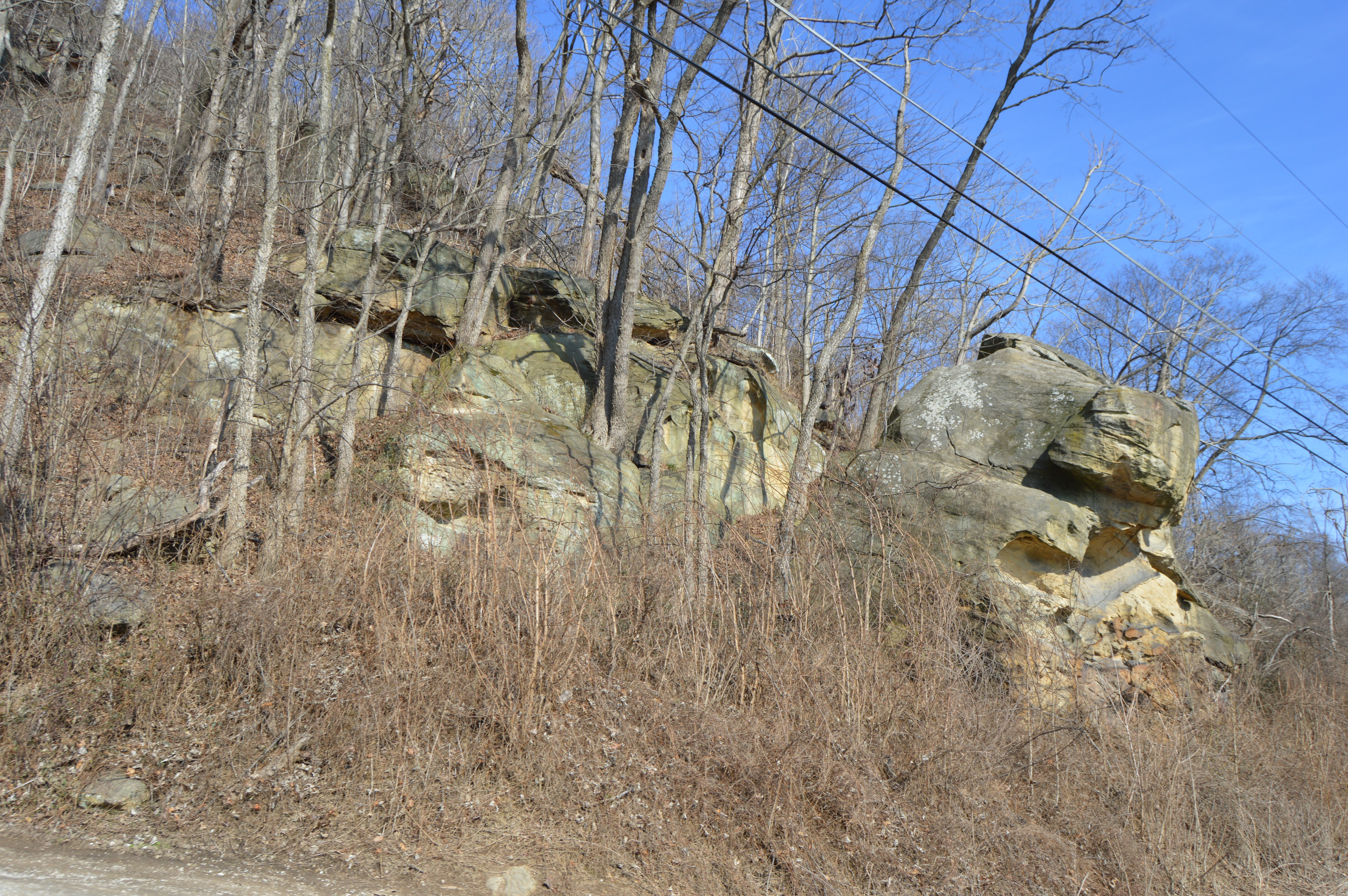 An outcrop of sandstone on the northern side of Lick Creek Road north of South Point in Perry Township, Lawrence County, Ohio, United States.